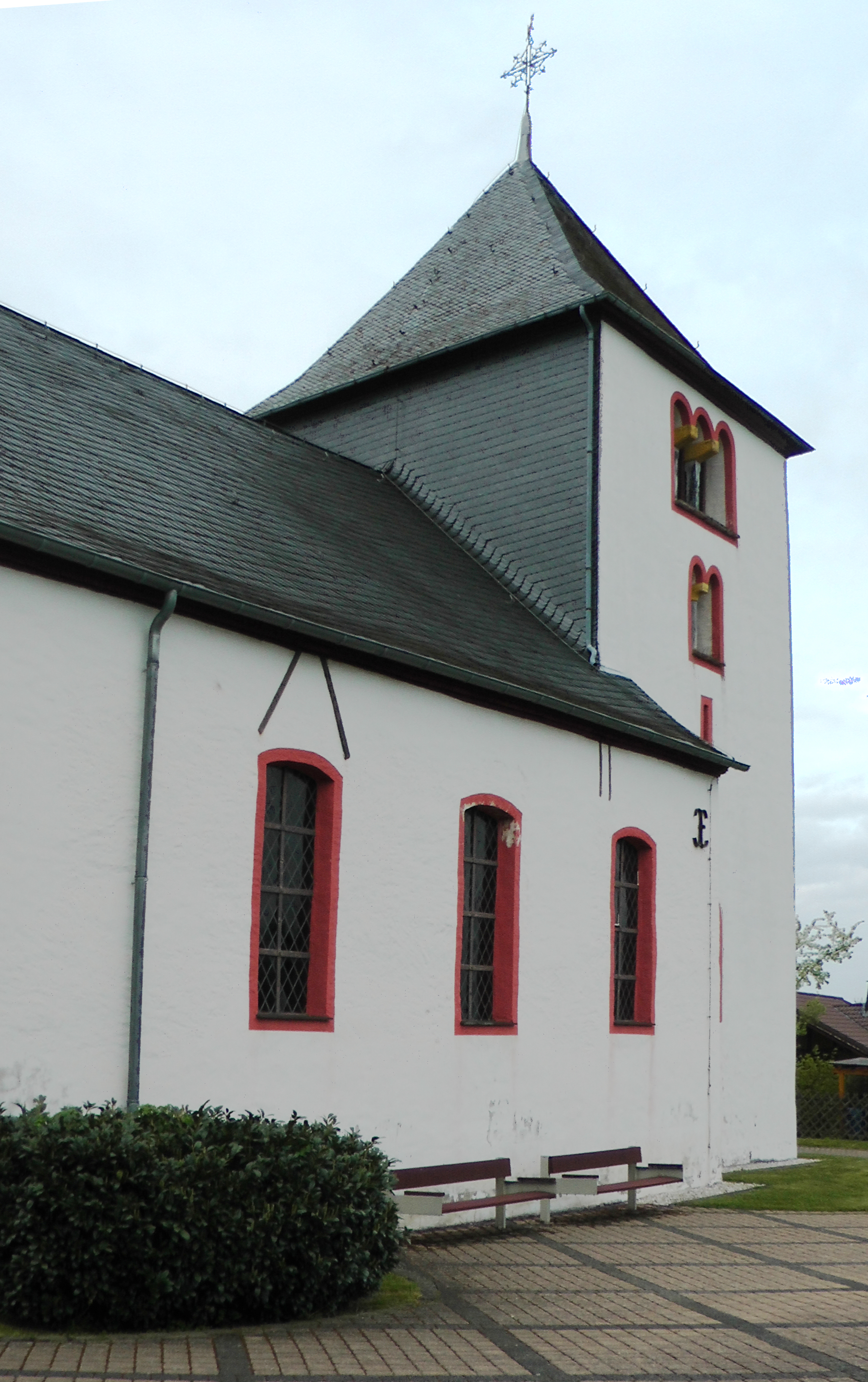 Protestant Church (Hirschfeld Hunsrück)